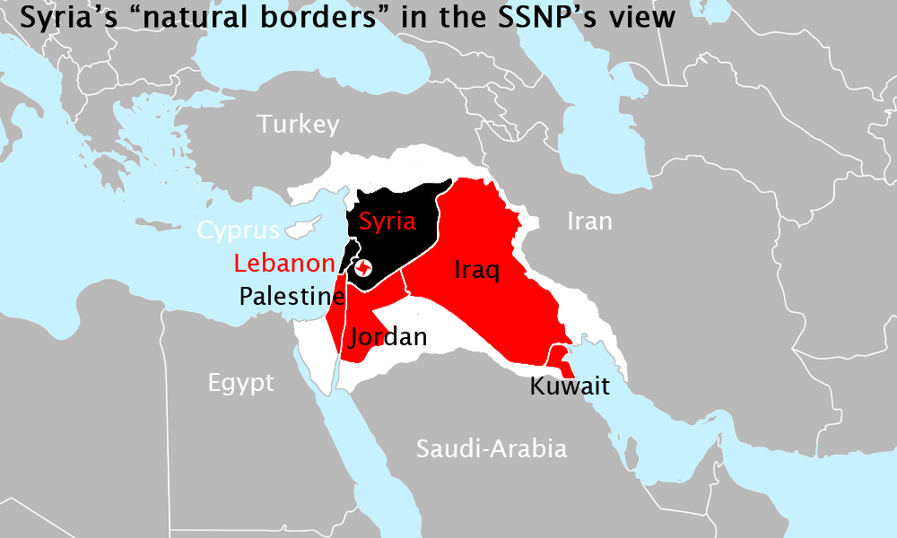 Irredentist Greater Syria as conceived by Antun Saadeh